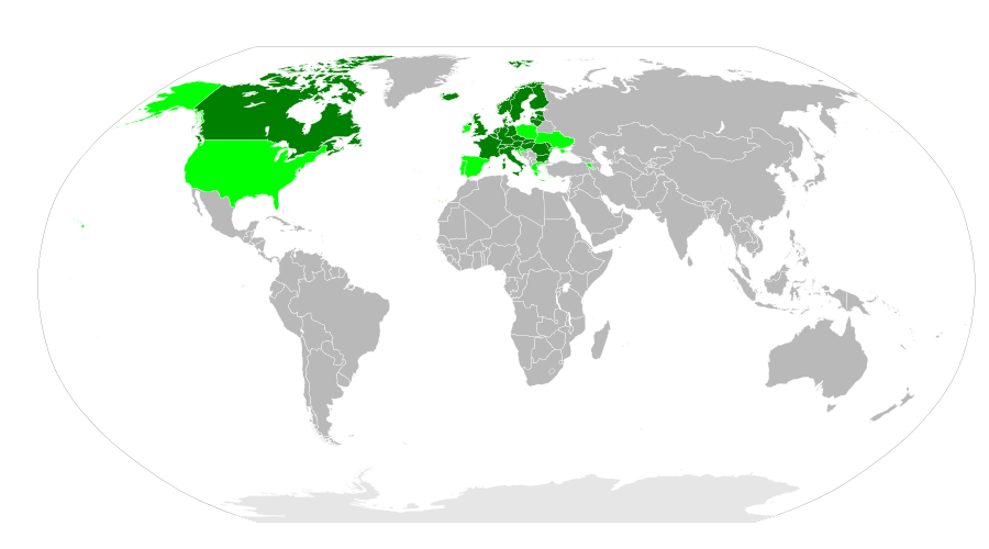 Signatories of the Protocol on Persistent Organic Pollutants